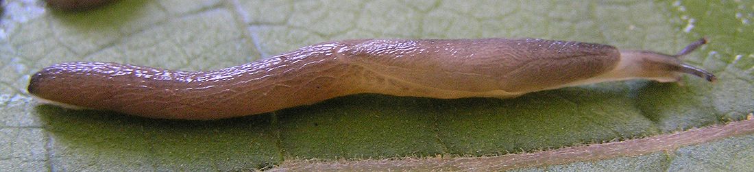 Boettgerilla pallens Simroth 1912. Locality: Slovakia: Low Tatra National Park, Moštenica Kyslá. Date: 31 August 2004.